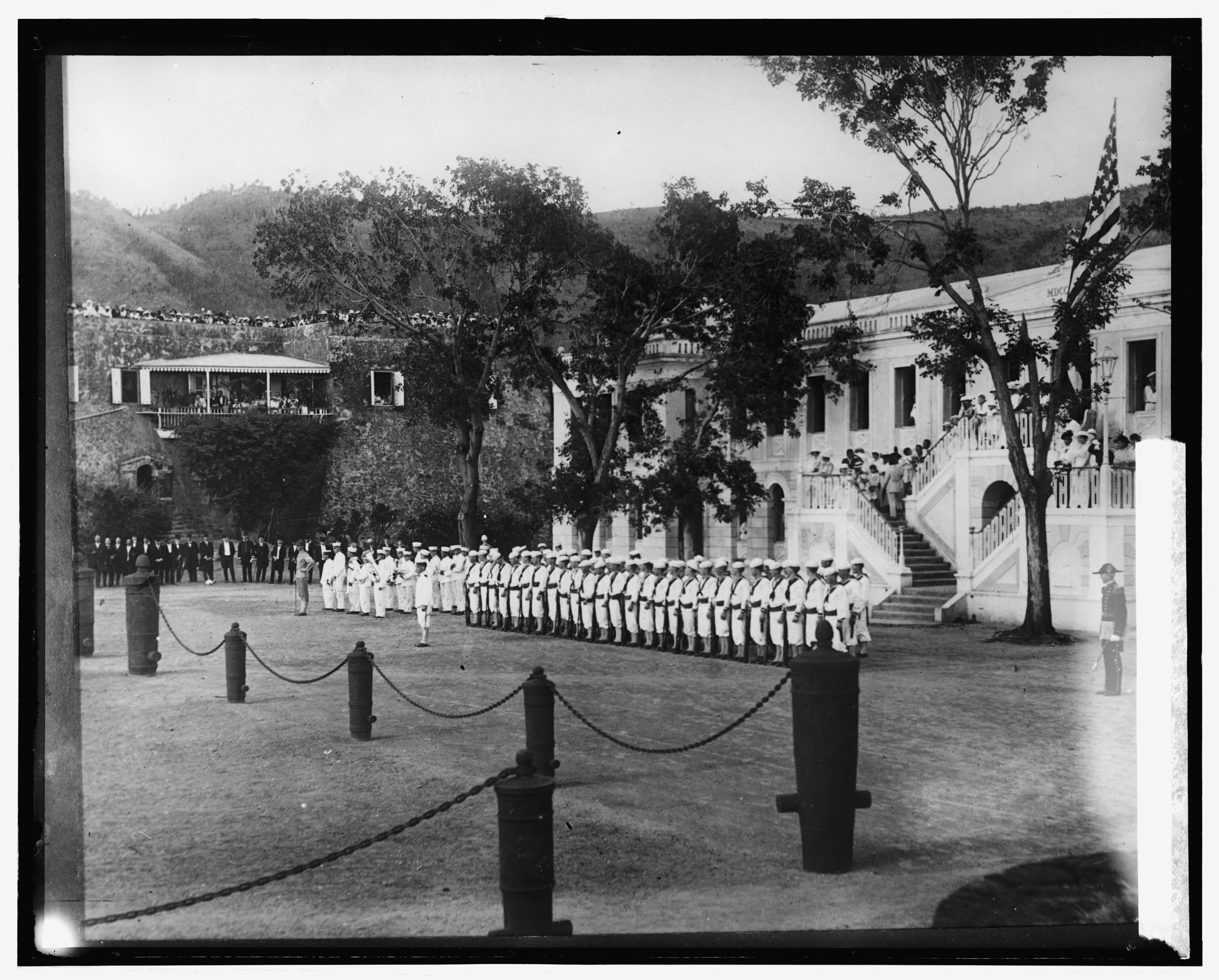 Title: Raising the American flag in the Danish West Indies Abstract/medium: 1 negative : glass ; 8 x 10 in. or smaller